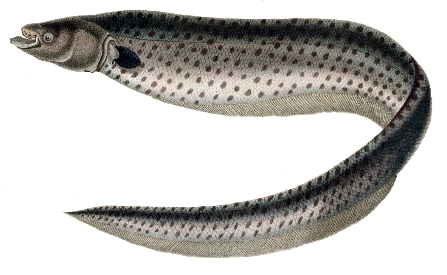 « Carapus inaequilabiatus » = Gymnotus inaequilabiatus